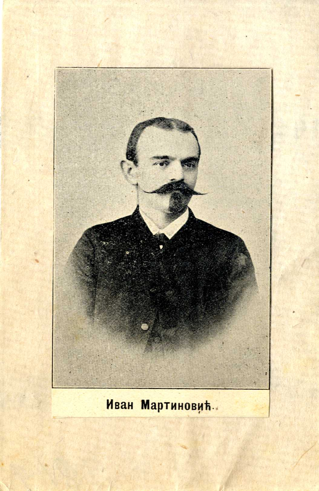 Ivan Martinovic, writer, teacher, translater from Serbia, (1863-1926)